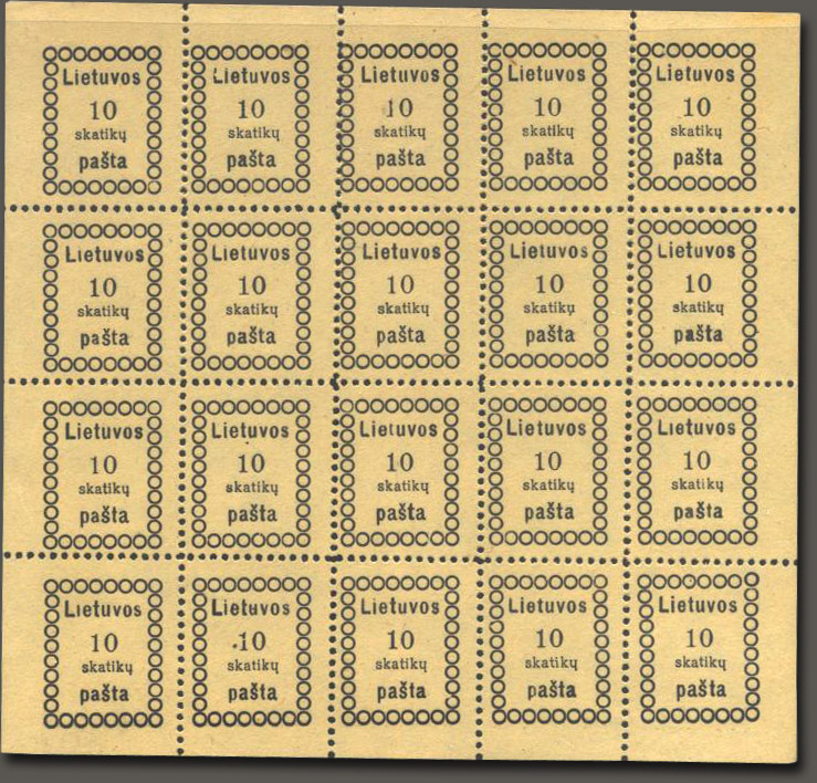 Michel 1, "Baltukas" (1918) (full sheet)